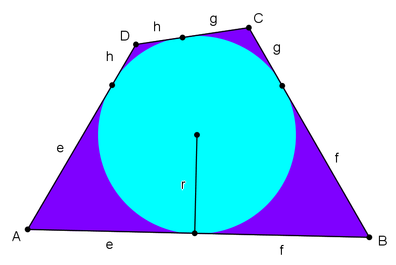 Tangential quadrilateral with tangent lengths.